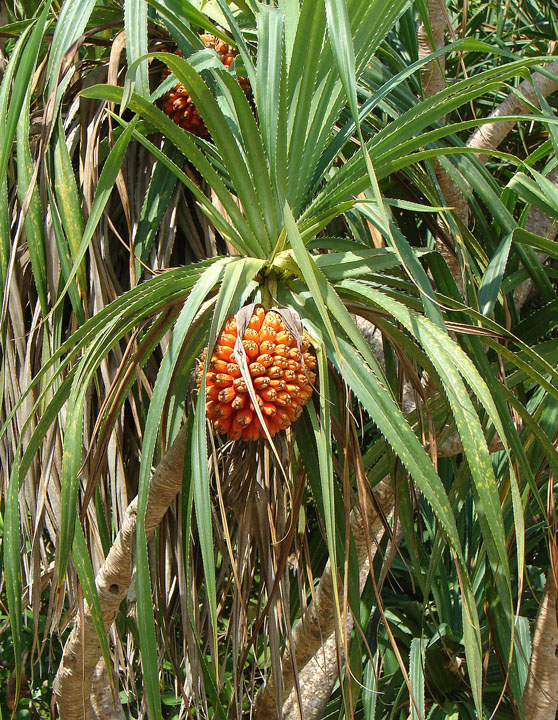 A common genus on the coasts of southeast Asia. Known as Screw Pines in English and Pandan locally. Photo from the northwest coast of Borneo. In context at